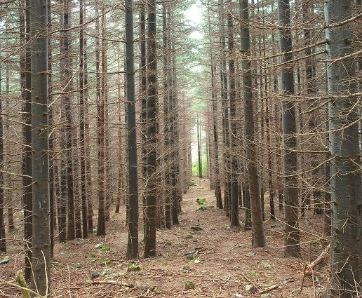 Abies grandis plantation, Donard forest (3). See 1216056. The view down, towards Newcastle, through what passes for a gap in an otherwise dense conifer plantation.